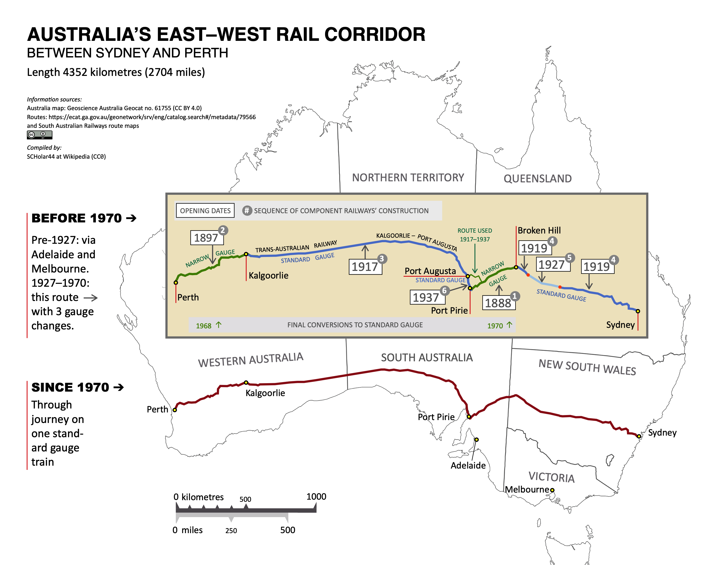 The map shows the Australian states and a railway route between the east and west coasts comprising the East-west rail corridor and, within it, the Trans-Australian Railway.